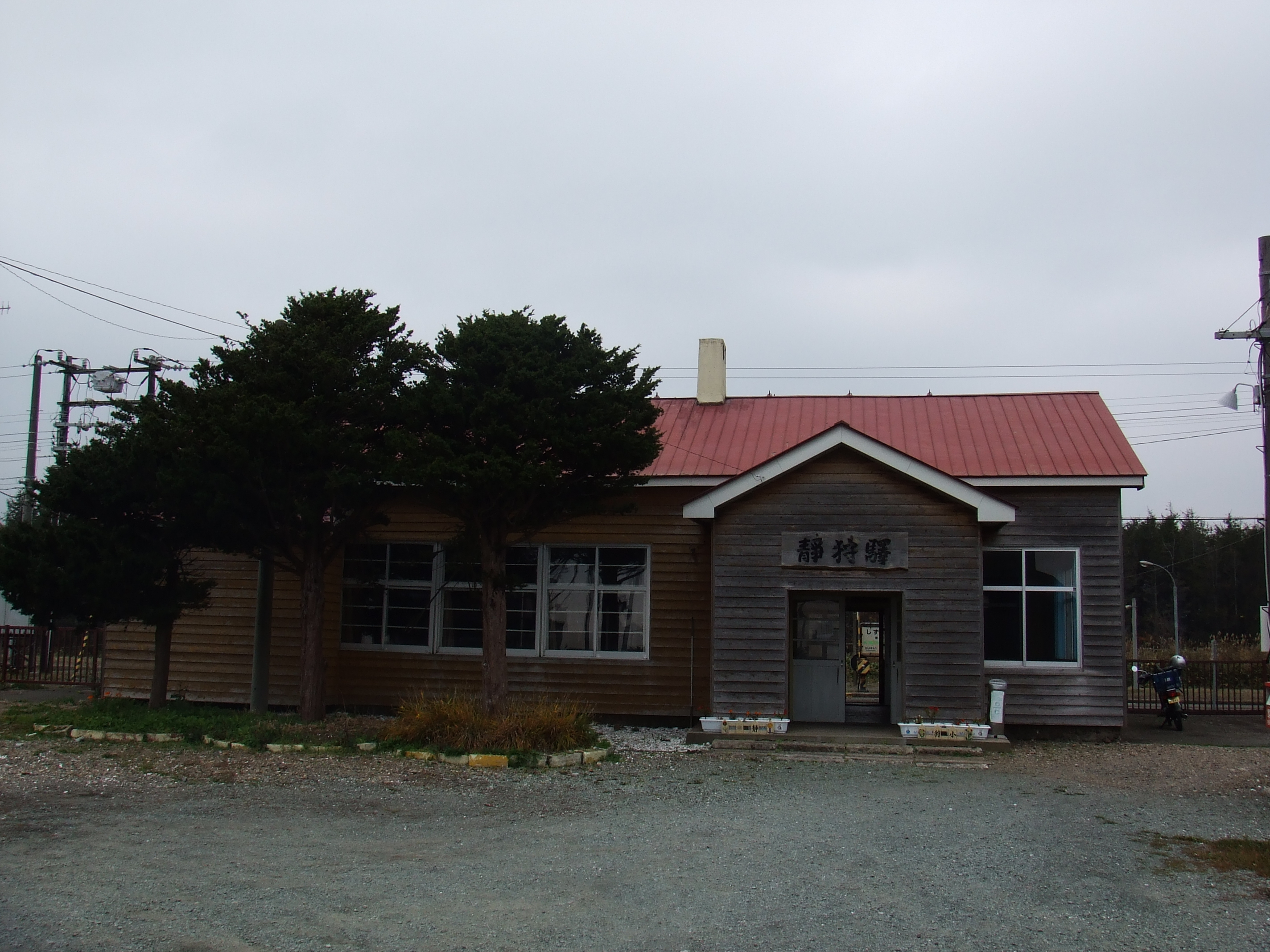 Shizukari Station